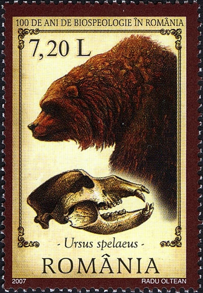 Stamps of Romania, 2007